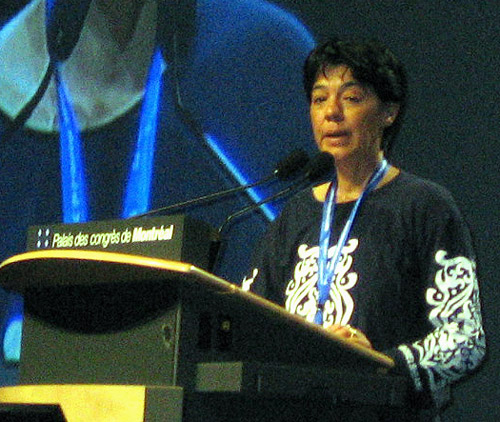 Patria Jiménez addressing the Latin America plenary of the International Conference on LGBT Human Rights in Montreal, 28 July 2006